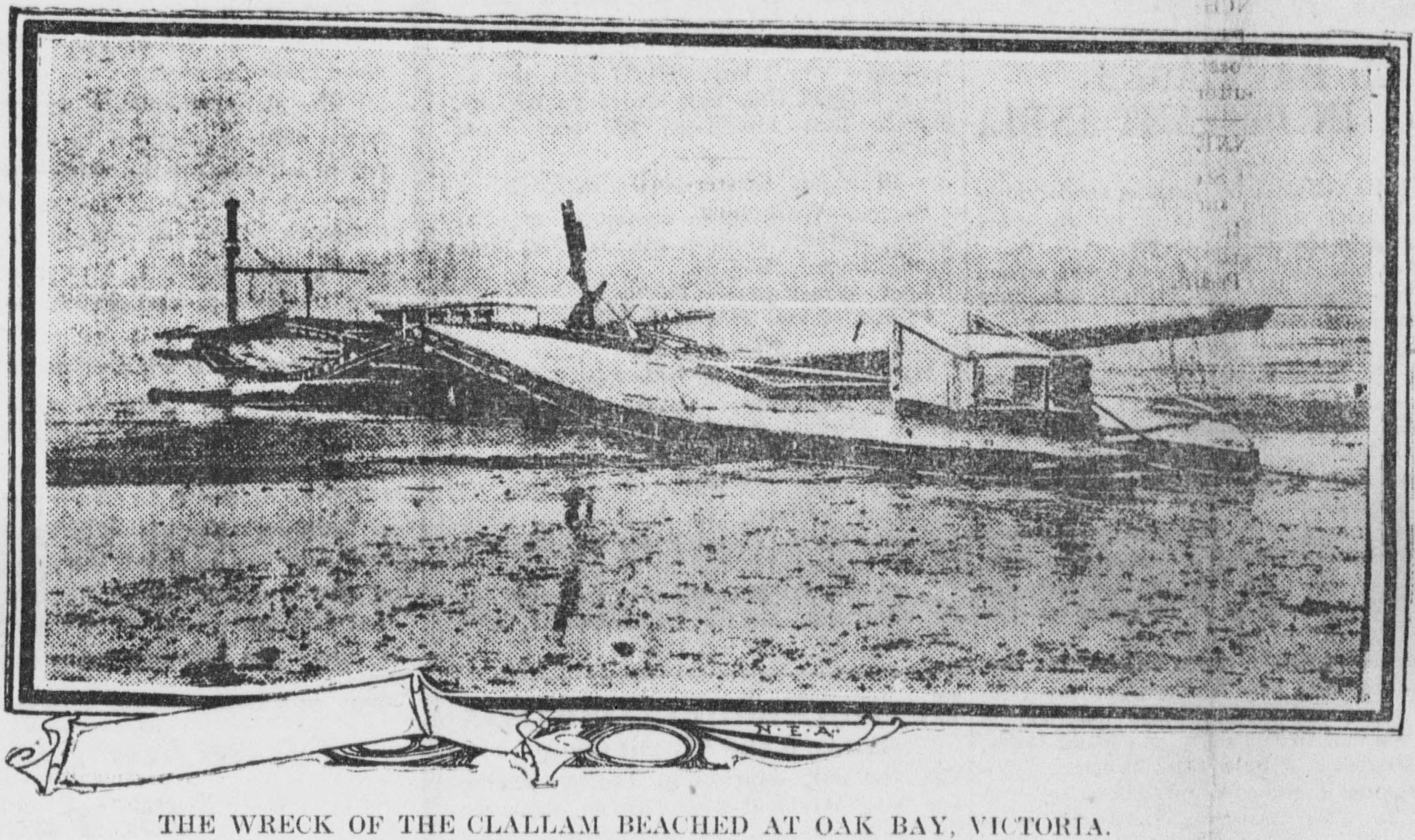 in February 1904, the steamboat Clallam sank. It was later recovered and auctioned off; the Canadian Pacific Railway bought some of parts, while a local pawnbroker bought much of the hull with the intent of exhibiting it. It was not as popular as he had hoped; by June 1904, he abandoned it on a beach outside Oak Bay, British Columbia.